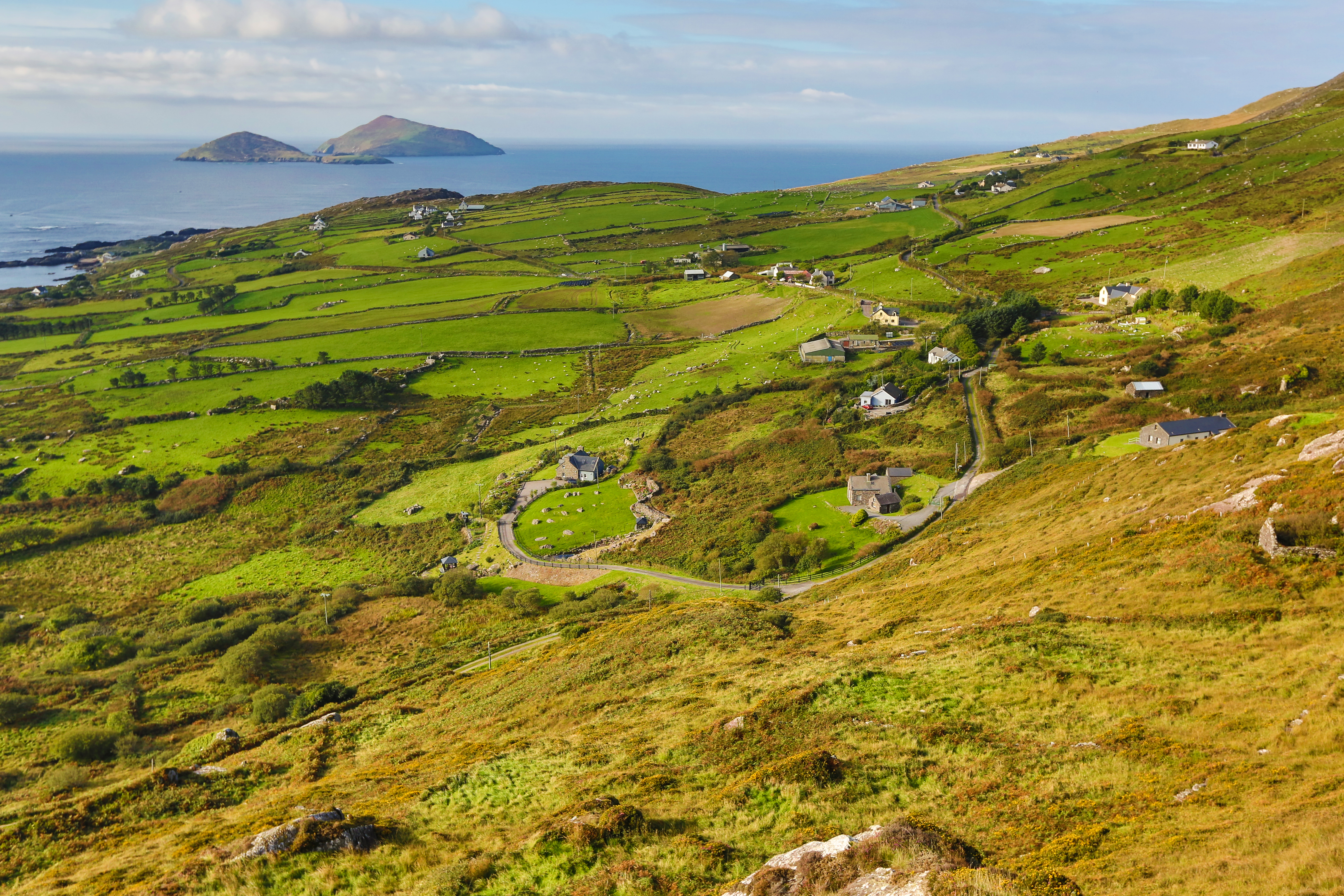 Scariff and Deenish Islands 12282959374 o